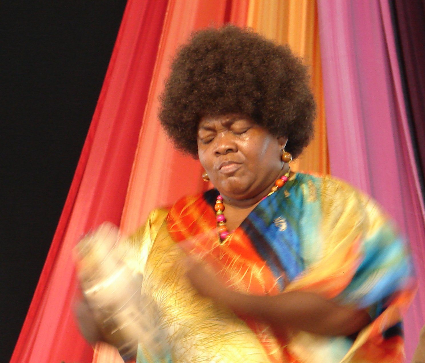 Rosalie Washington, known as Lady Tambourine, joins John Lee and the Heralds of Christ at the gospel tent at New Orleans Jazz and Heritage Festival 2008.